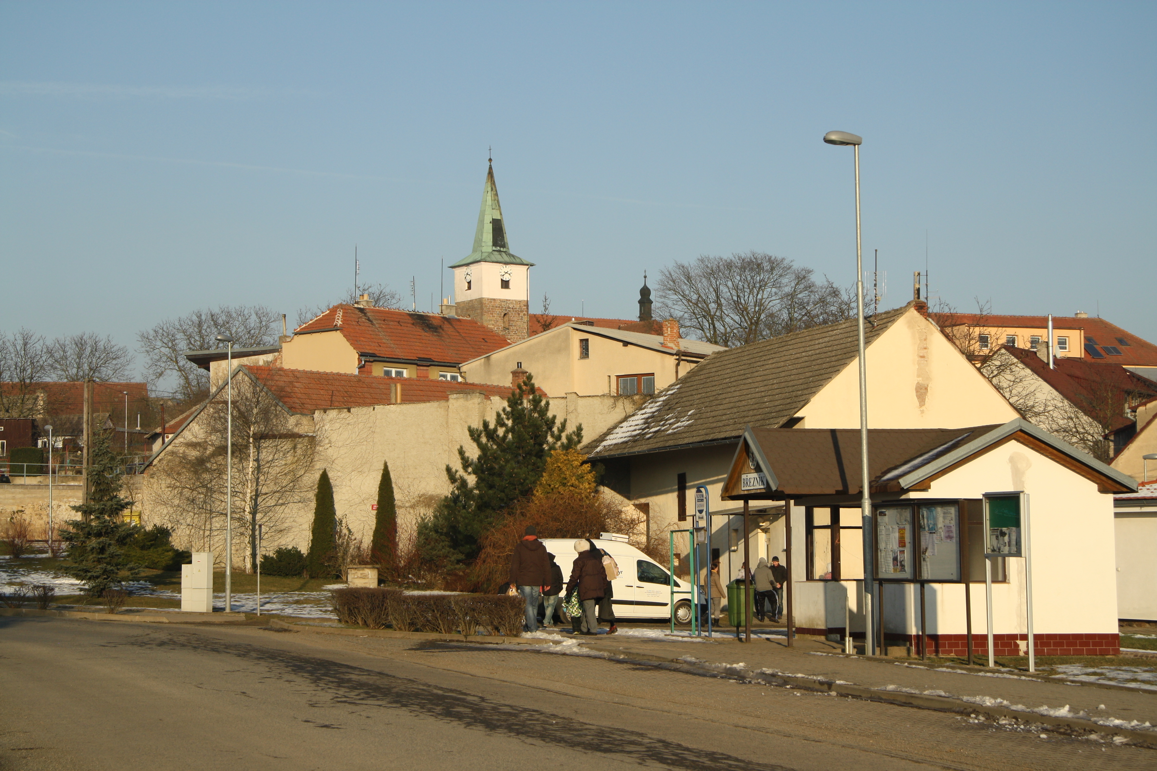 Center of village with Church of the Assumption in Březník, Třebíč District.